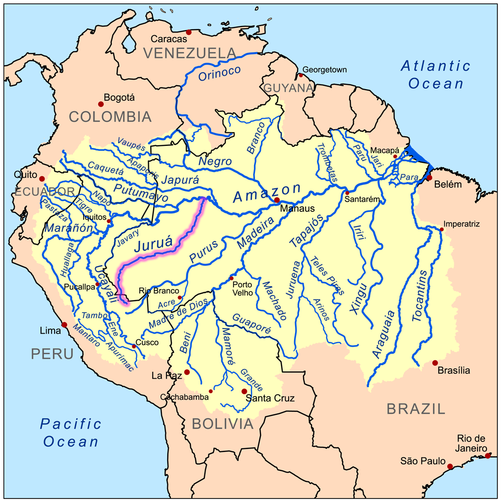 This is a map of the Amazon River drainage basin with the Juruá River highlighted.